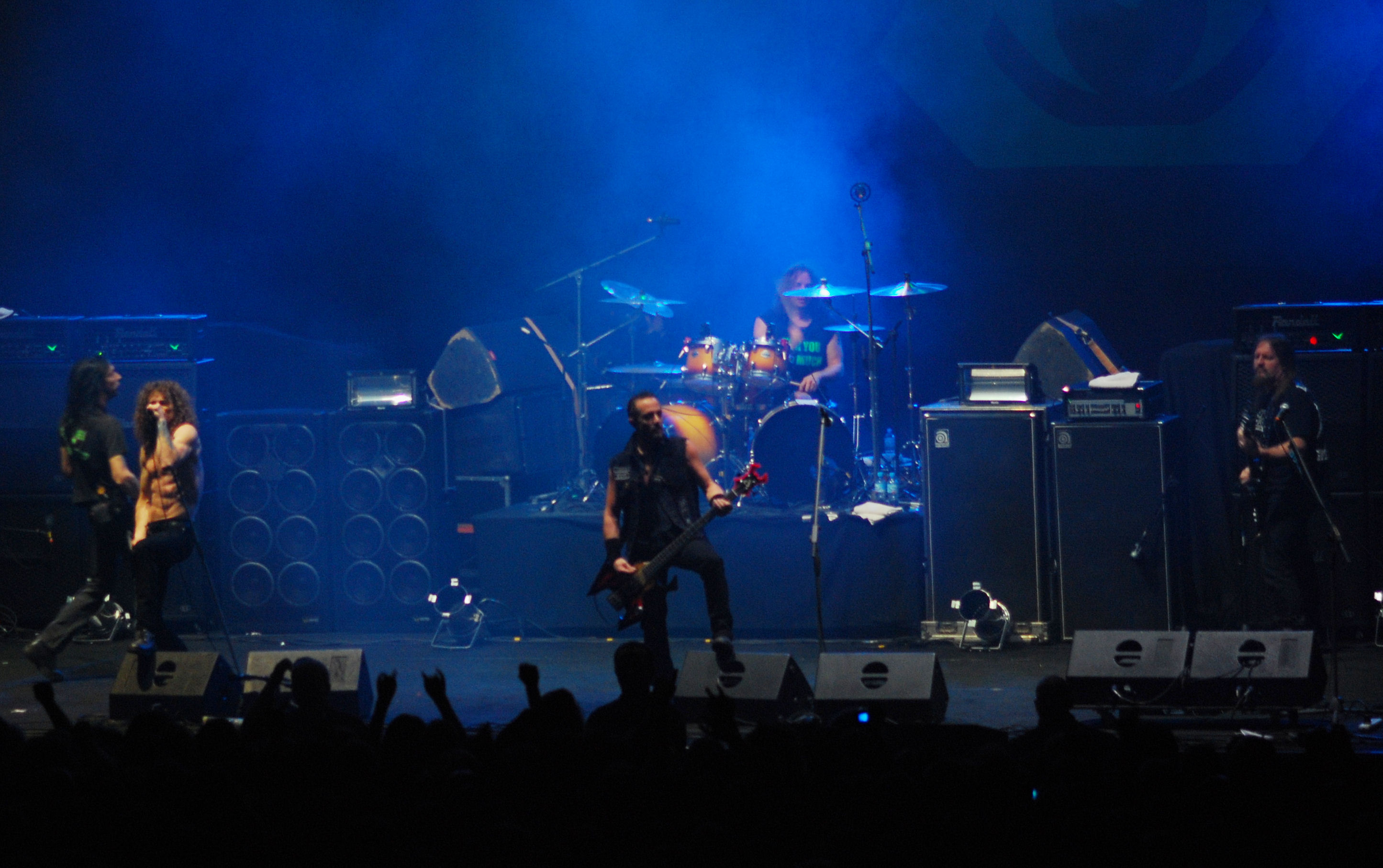 Overkill during Metalmania 2008 festival